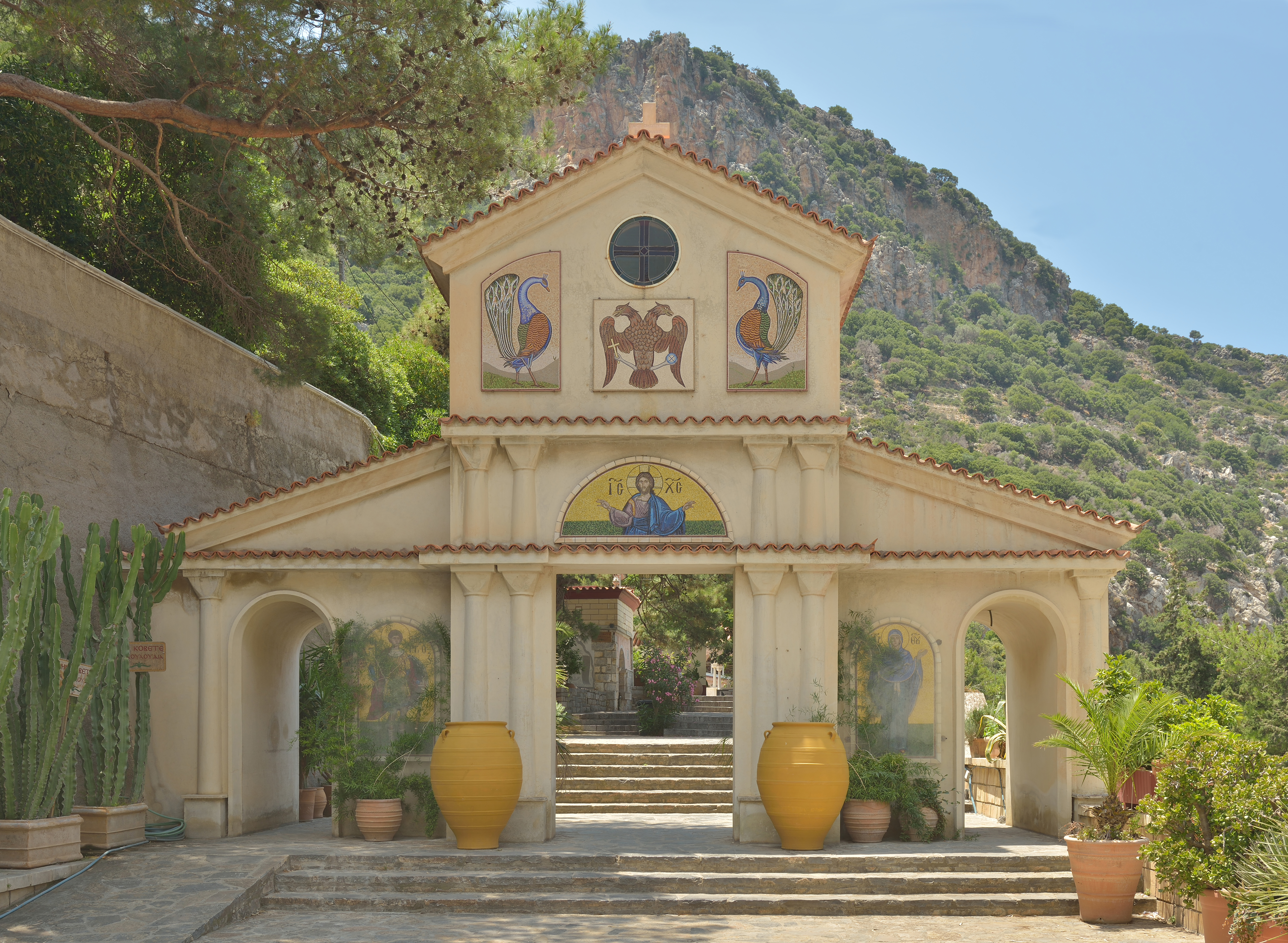 Agios Georgios Selinari monastery in Crete